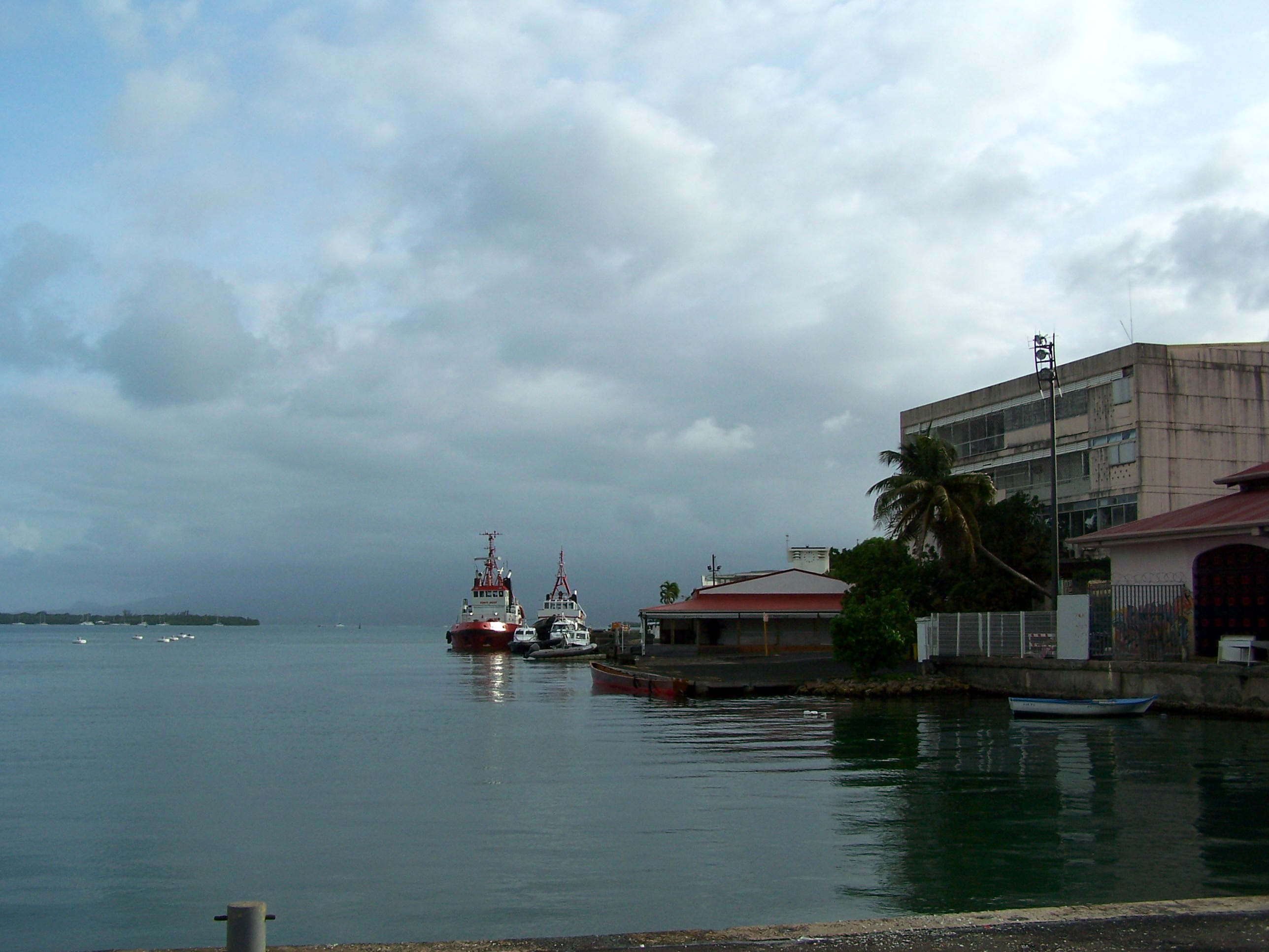 Darse de Pointe-à-Pitre